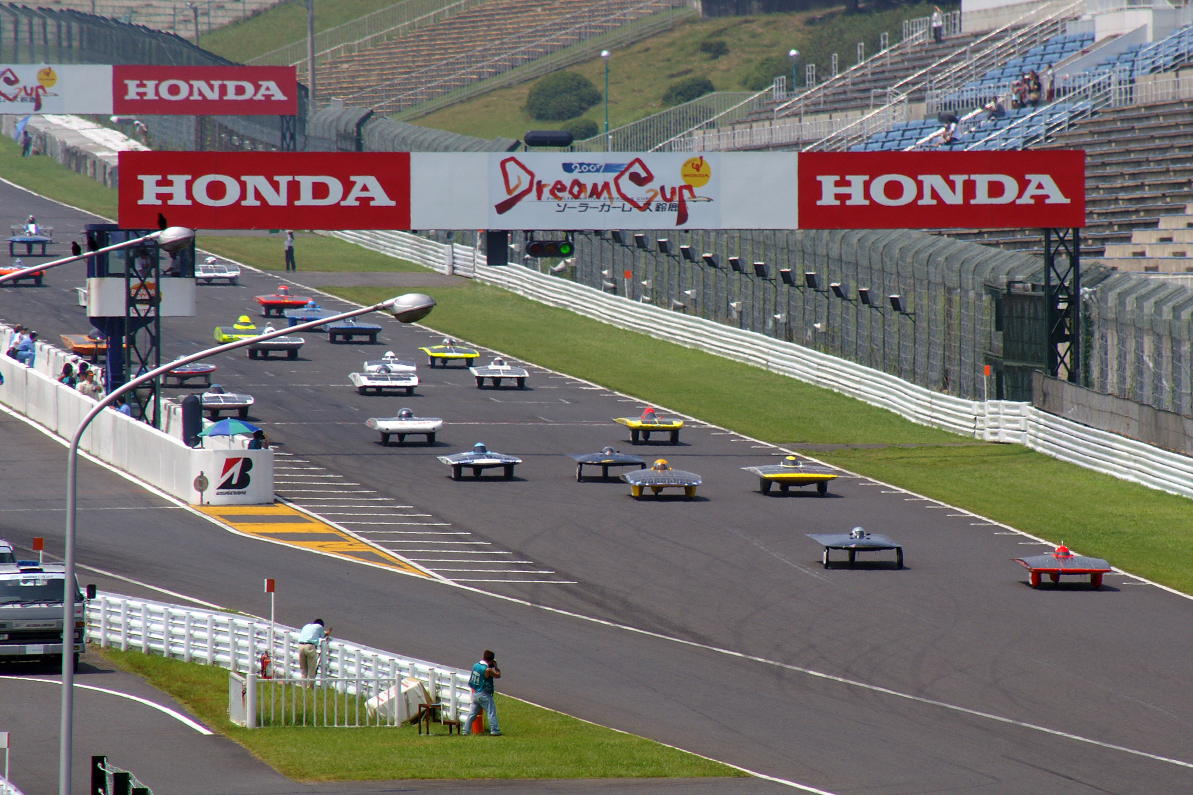 Start scene of "2007 Dream Cup Solar Car Race Suzuka".